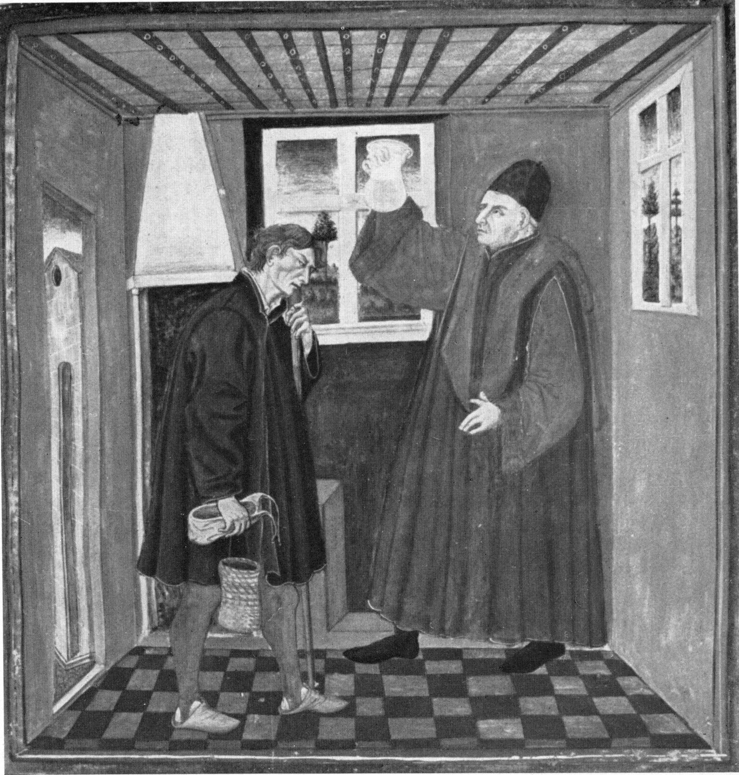 Illumination in a manuscript from Naples containing a Latin translation of a medical treatise by al-Razi („Rasis“). A doctor with his patient; the doctor holds a vessel with the patient’s urine. Torino, Biblioteca Nazionale, D.I.14, fol. 1.